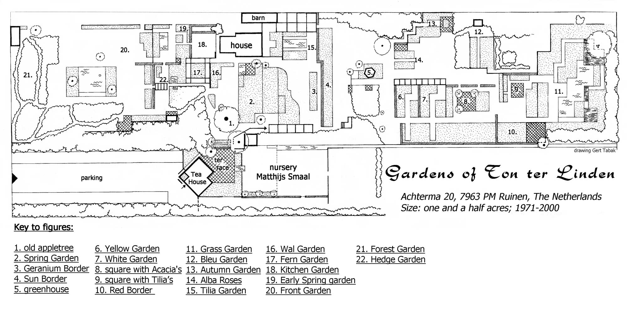 Map of the Gardens by Ton ter Linden, Ruinen